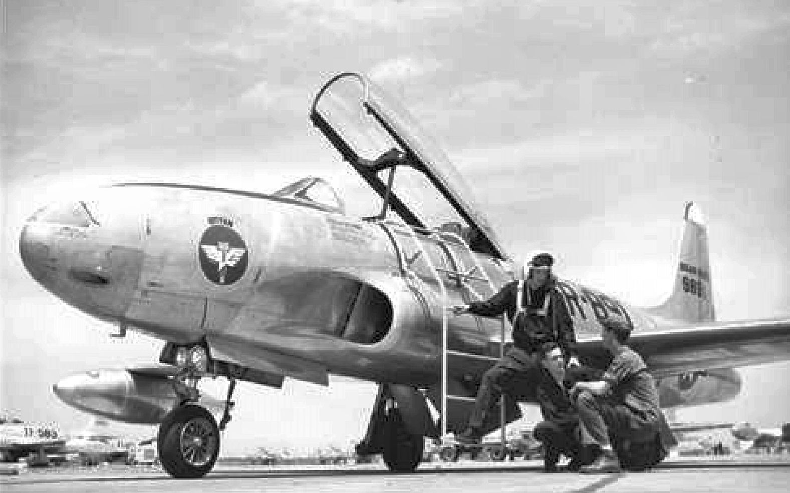 Prior to taking off on a routine training flight, an instructor and student at Bryan AFB, Texas, discuss last minute details with the crew chief.